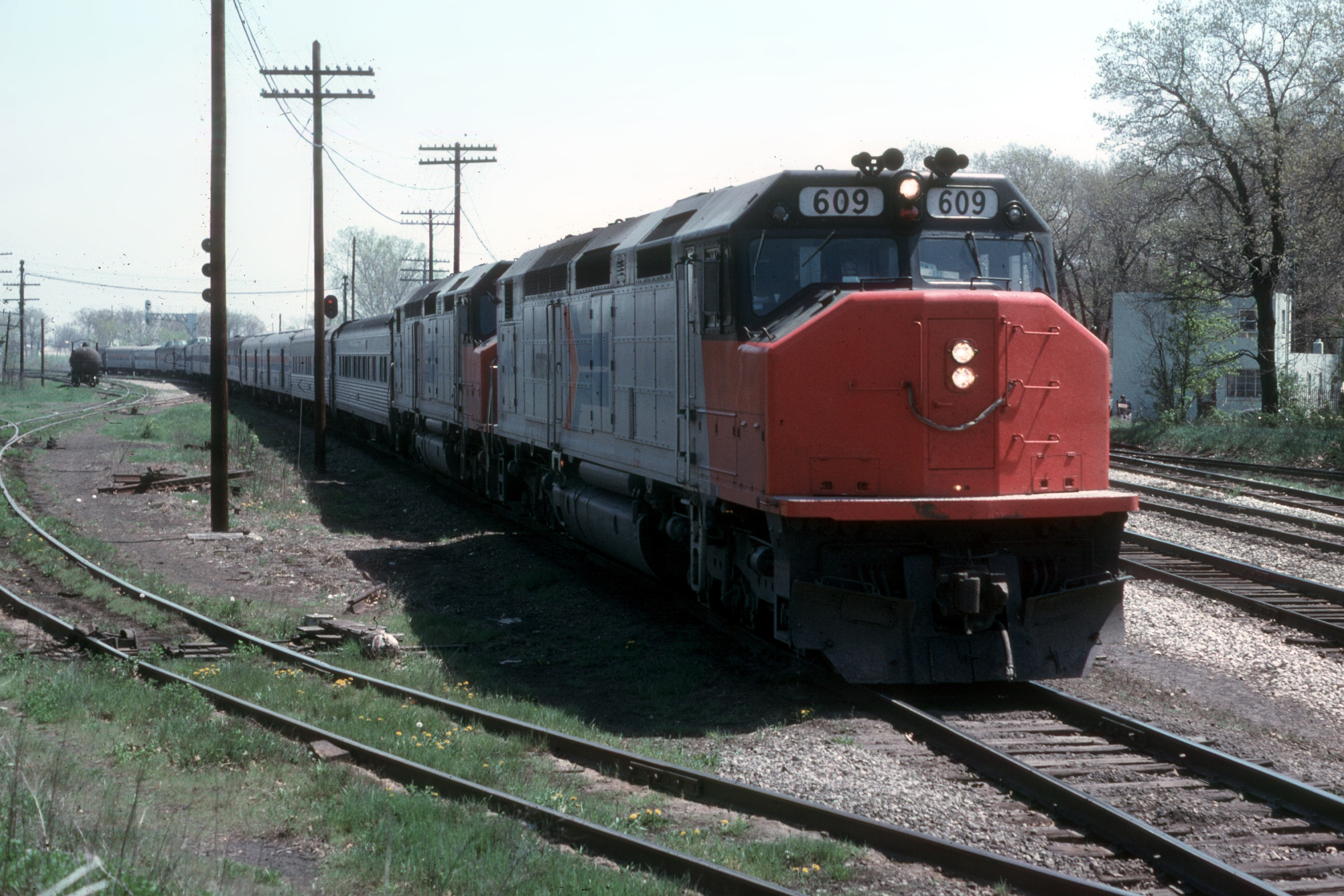 The westbound James Whitcomb Riley about to cross the diamonds at Griffith, Indiana in May 1975